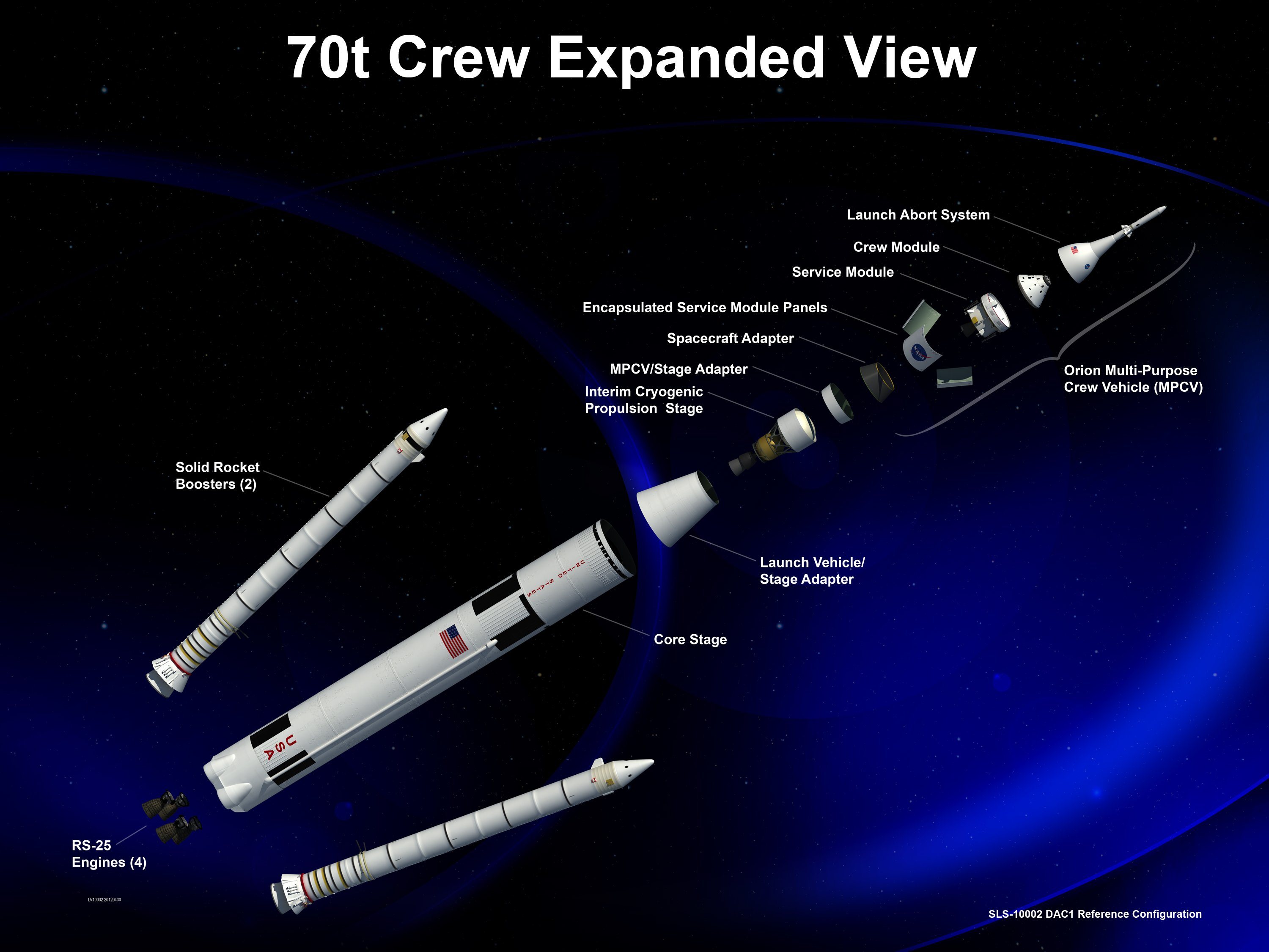 An expanded view of an artist rendering of the 70-metric-ton configuration of NASA's Space Launch System (SLS), managed by the Marshall Space Flight Center in Huntsville, Ala. Launching astronauts on board the Orion Multi-Purpose Crew Vehicle, this vehicle will enable humans to explore our solar system farther than ever before, supporting travel to asteroids, the moon, Mars and other deep space destinations. NASA plans to launch an uncrewed test flight of this configuration in 2017.